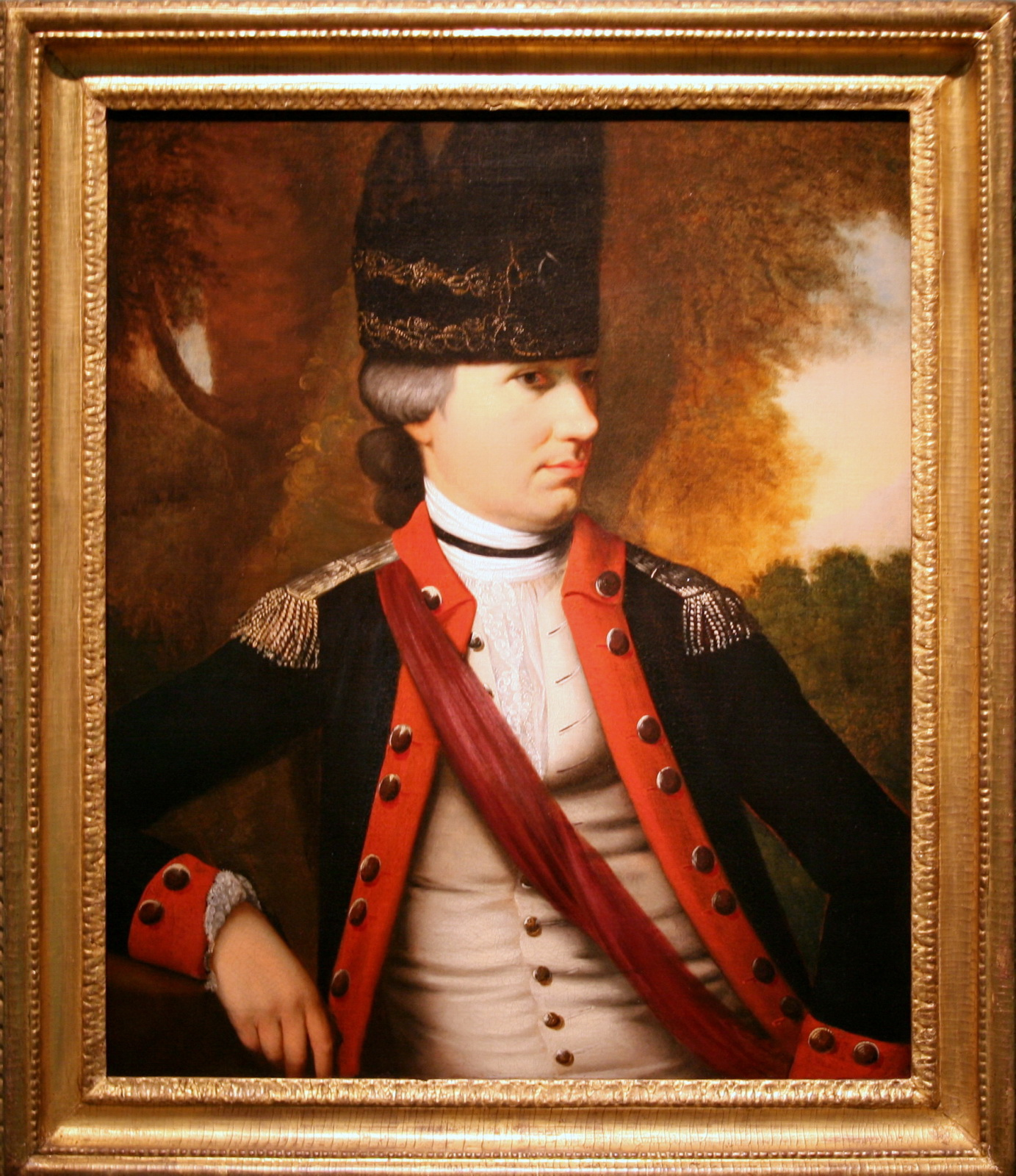 Oil on canvas painting of Charles Cotesworth Pinckney; size without frame 76.7×64 cm.